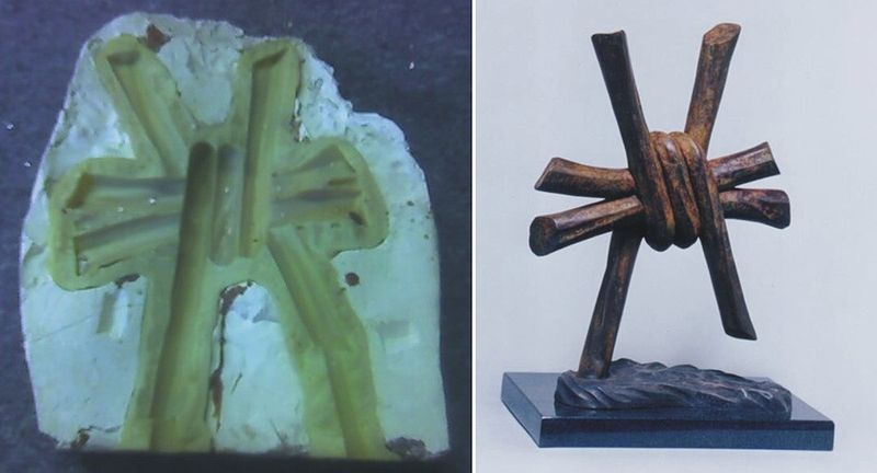 On the left is a plaster and rubber mold such is typically utilized in the lost wax process. On the right is the resulting cast bronze sculpture (Sculpture by David Ascalon).